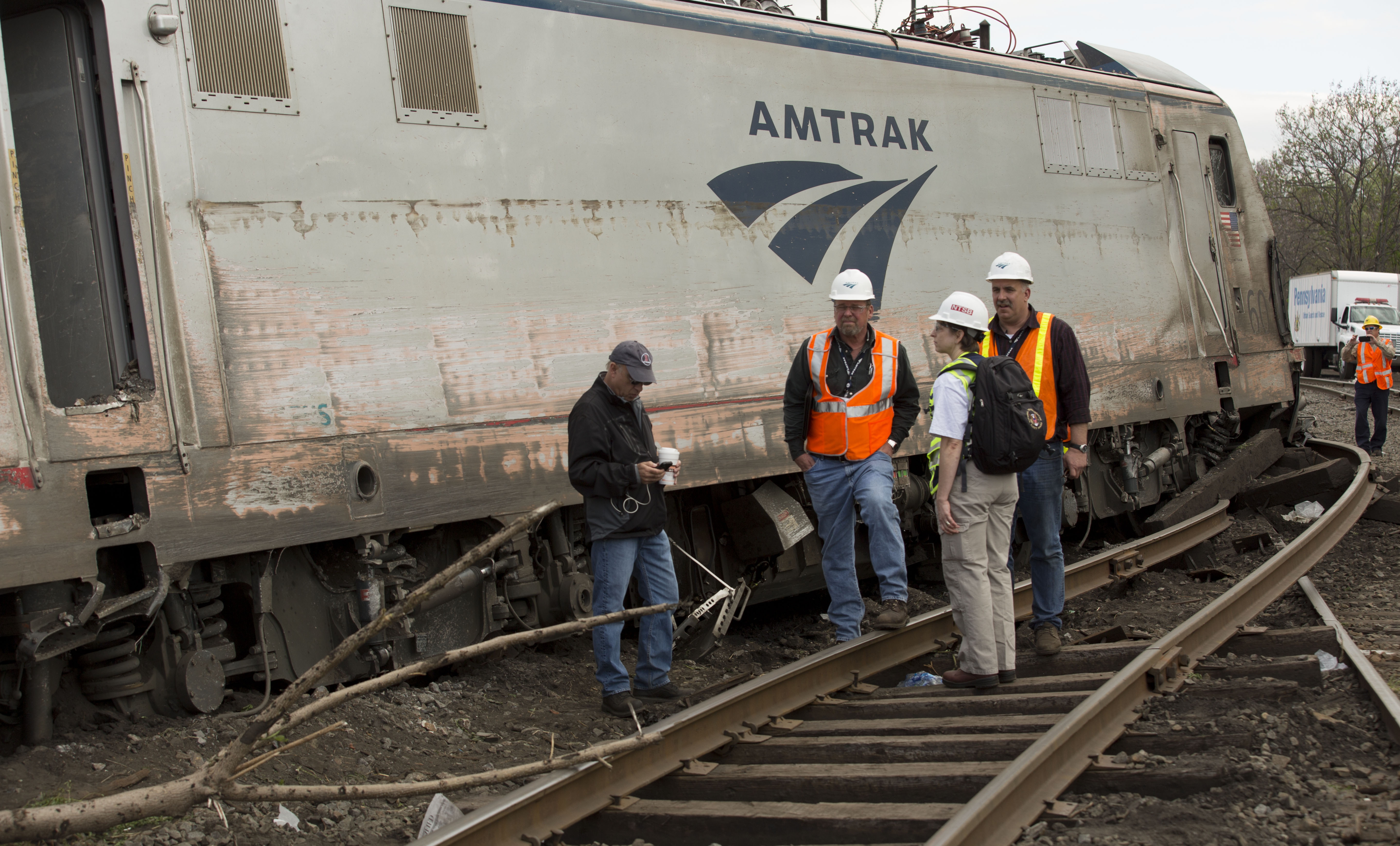 NTSB Recorder Specialist Cassandra Johnson works with officials on the scene of the Amtrak Train #188 Derailment in Philadelphia, PA. Amtrak Cities Sprinter ACS-64 locomotive, No. 601, is in the background.